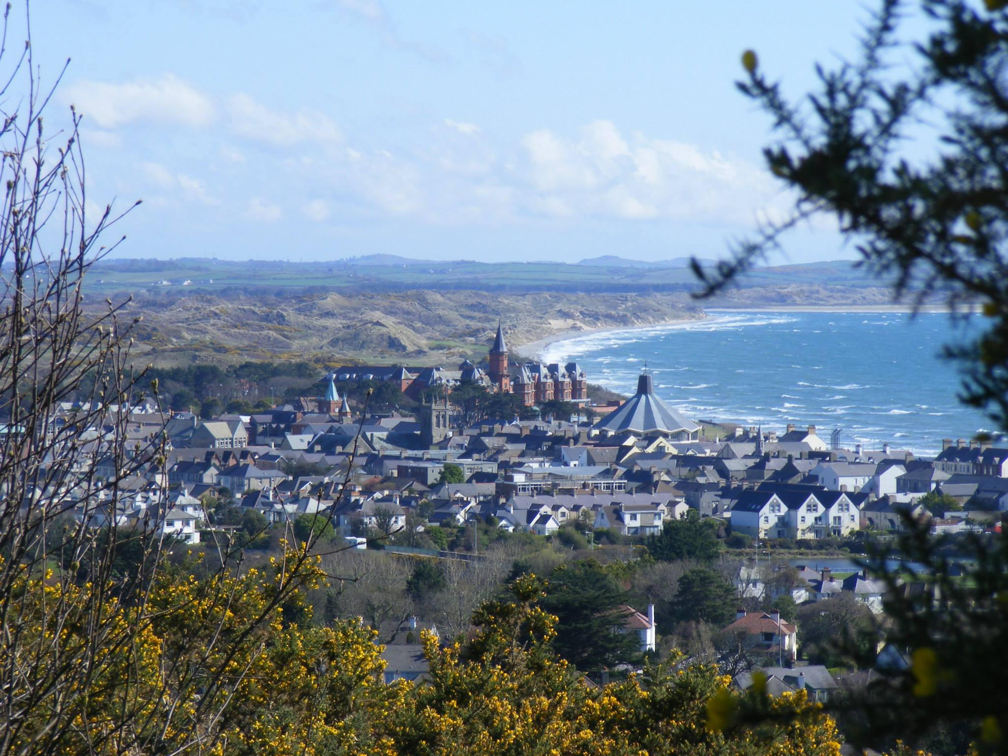 Taken by Ivor Anderson - July 2015